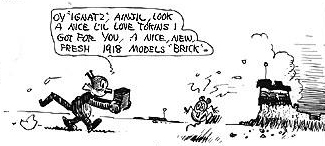 Panel from the Krazy Kat cartoon of Sunday, January 6, 1918, by George Herriman.